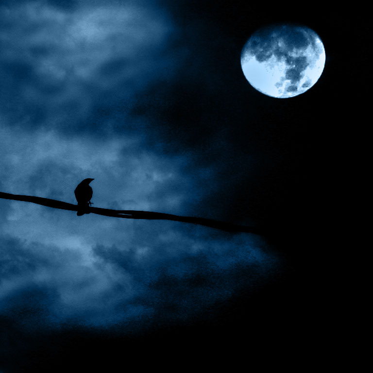 20 on explore on Sunday, July 1, 2007